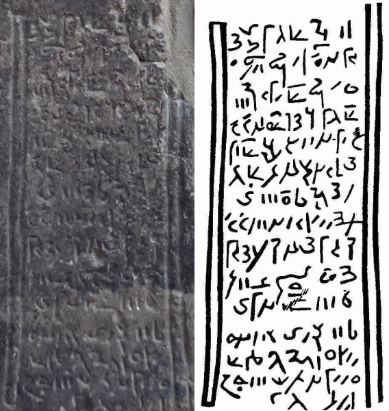 Graffito of Esmet-Akhom - demotic inscription (photograph + drawing)